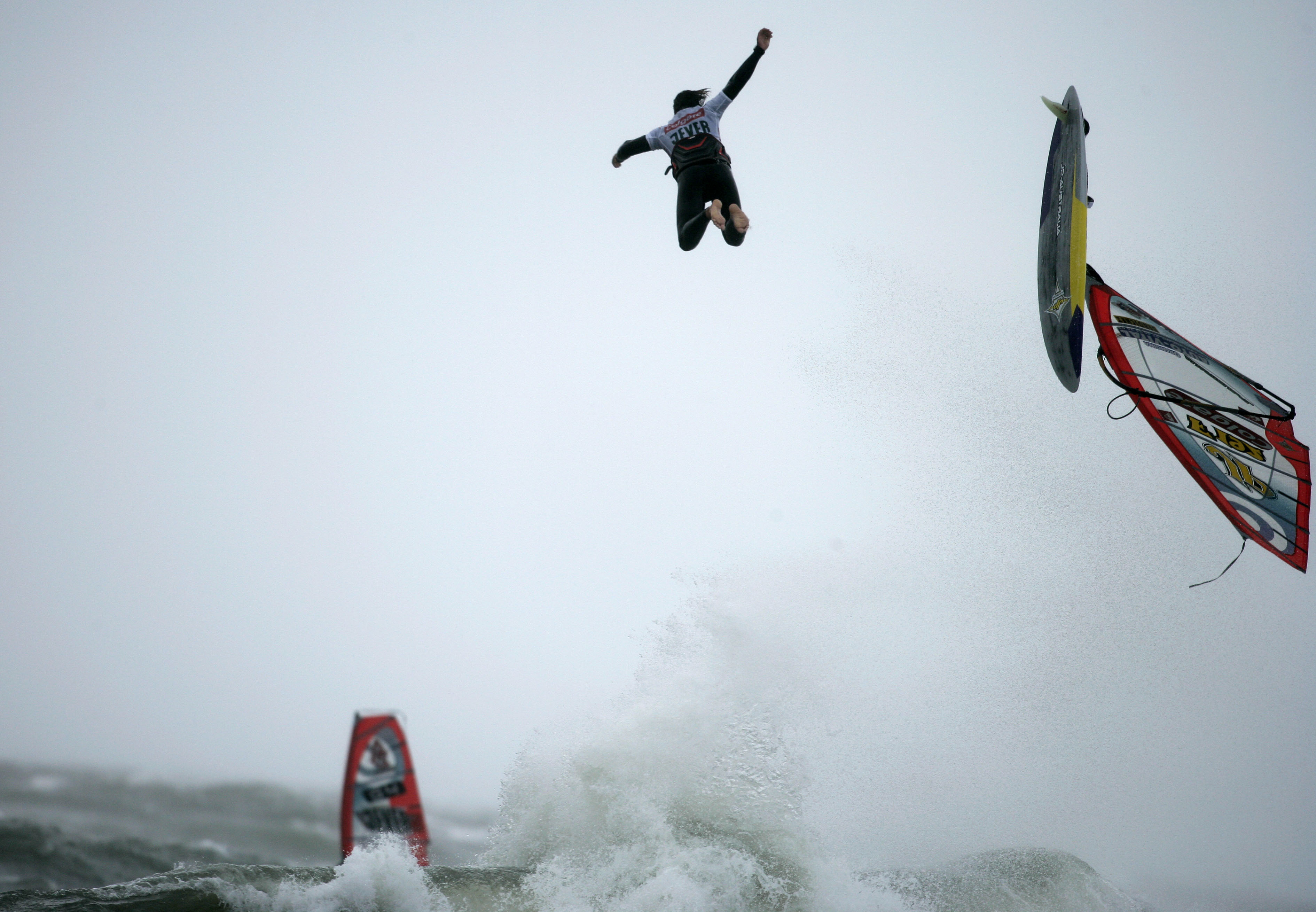 air time for Antoine Albeau, Windsurf World Cup Sylt 2009